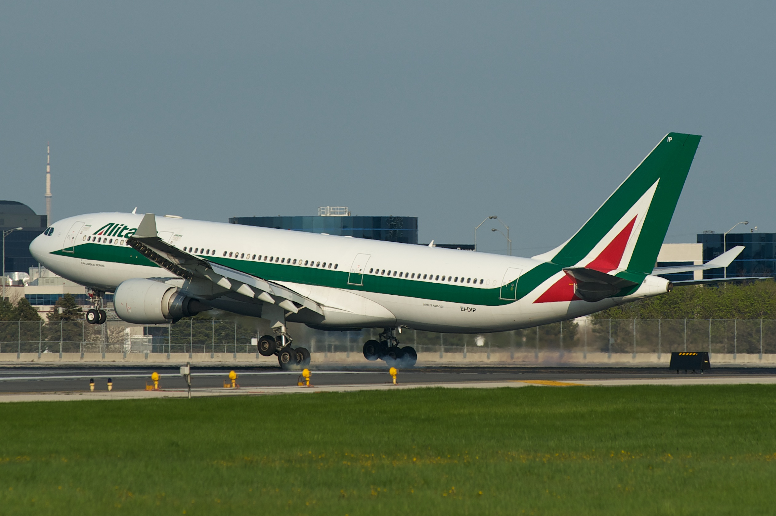 Touchdown, Toronto-Pearson.